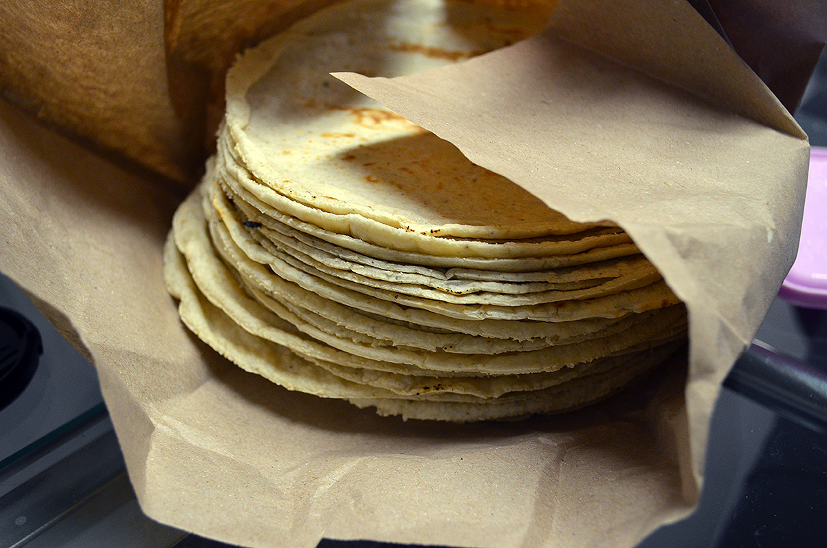 Photo of a kilo of tortillas, wrapped in paper, made in ​​a machine in Mexico City. Keywords: Tortilla, Close up, Tortillería.